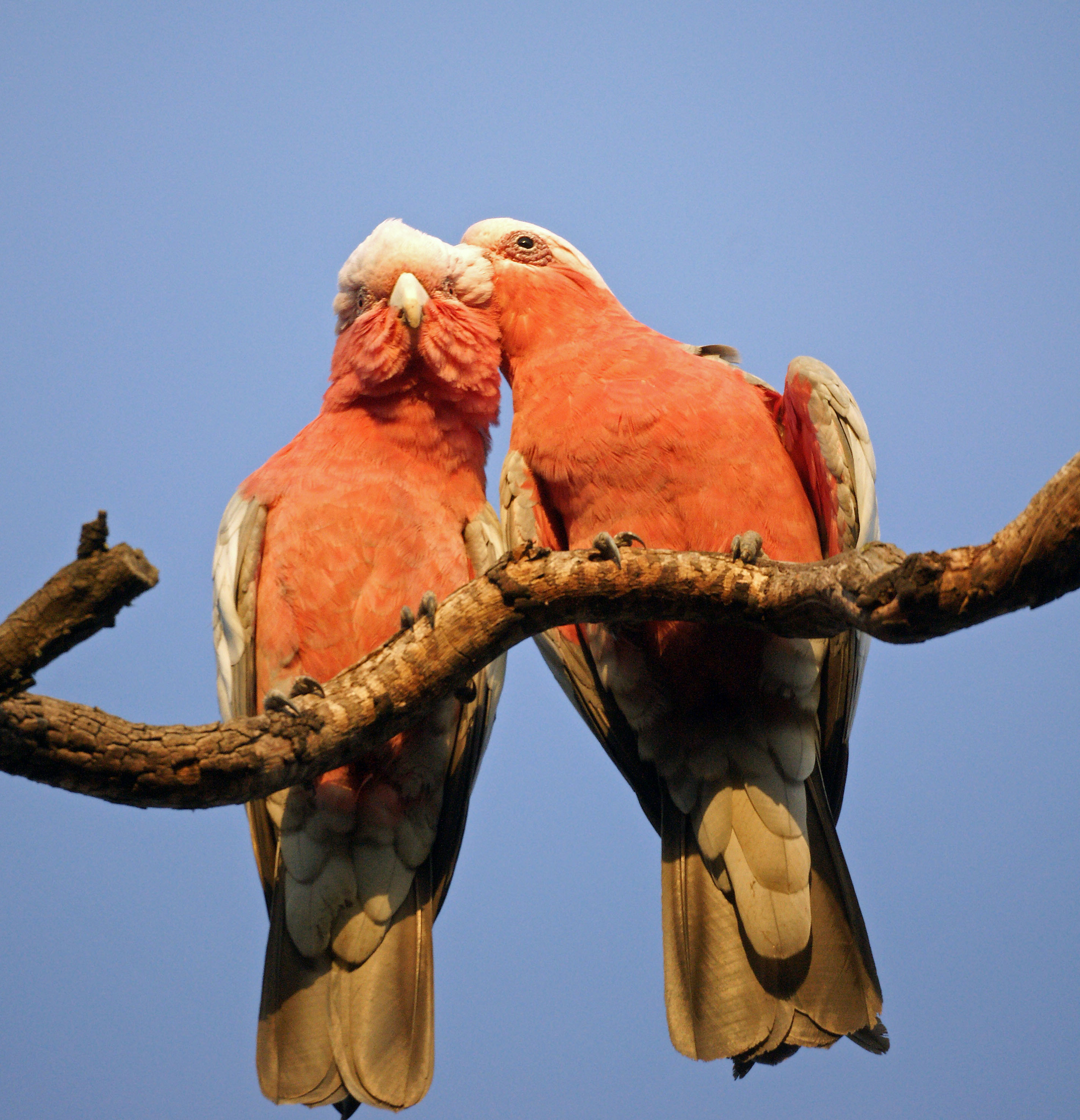 A pair of Galahs (also known as the Rose-breasted Cockatoo, Galah Cockatoo, and Roseate Cockatoo) in Wamboin, NSW, Australia. The female is on the left and male on the right.